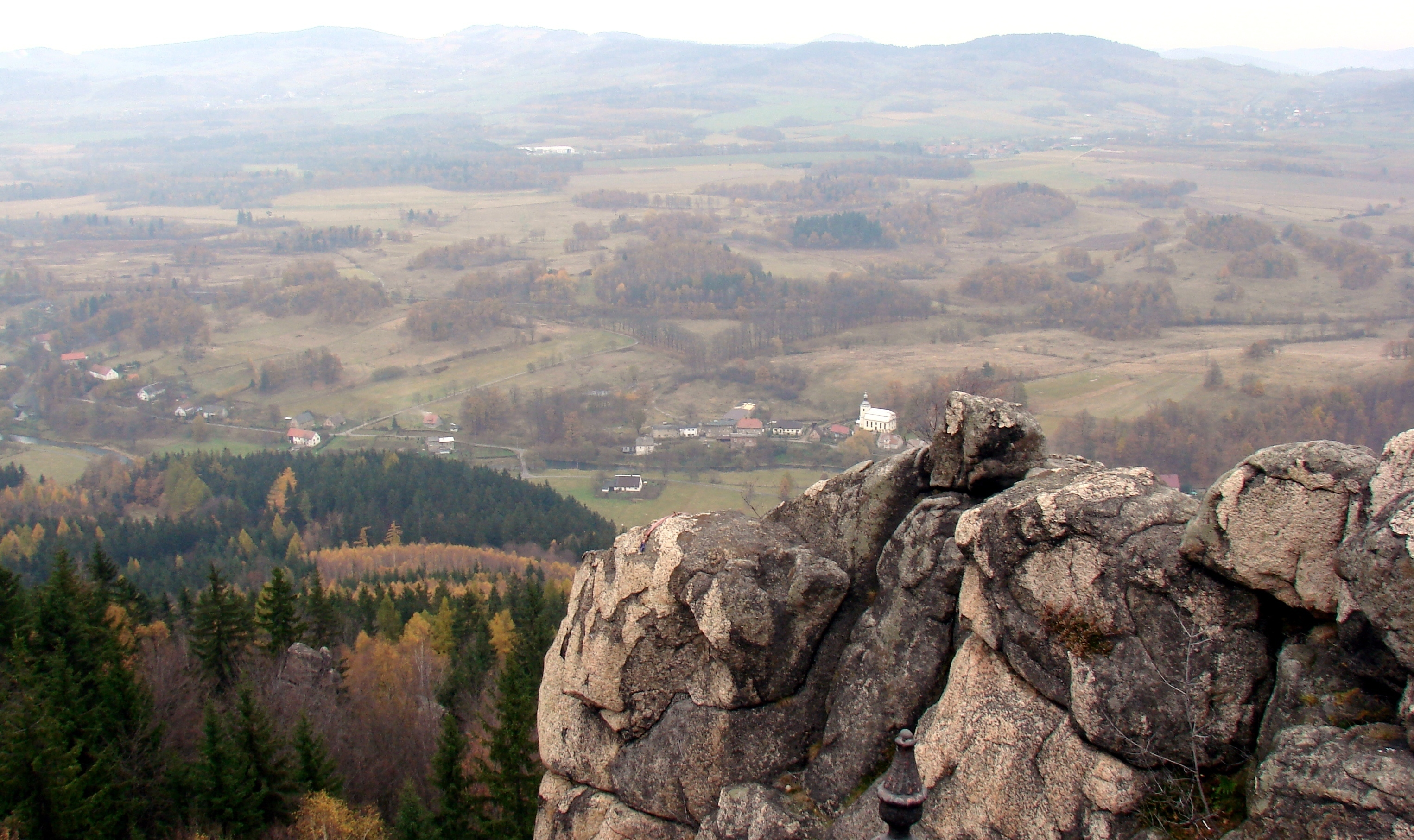 Landscape, Sokolik in Rudawy Janowickie, Lower Silesia, Poland